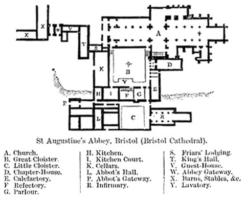 Plan of Bristol Cathedral Published in Encyclopedia Britanica 1902